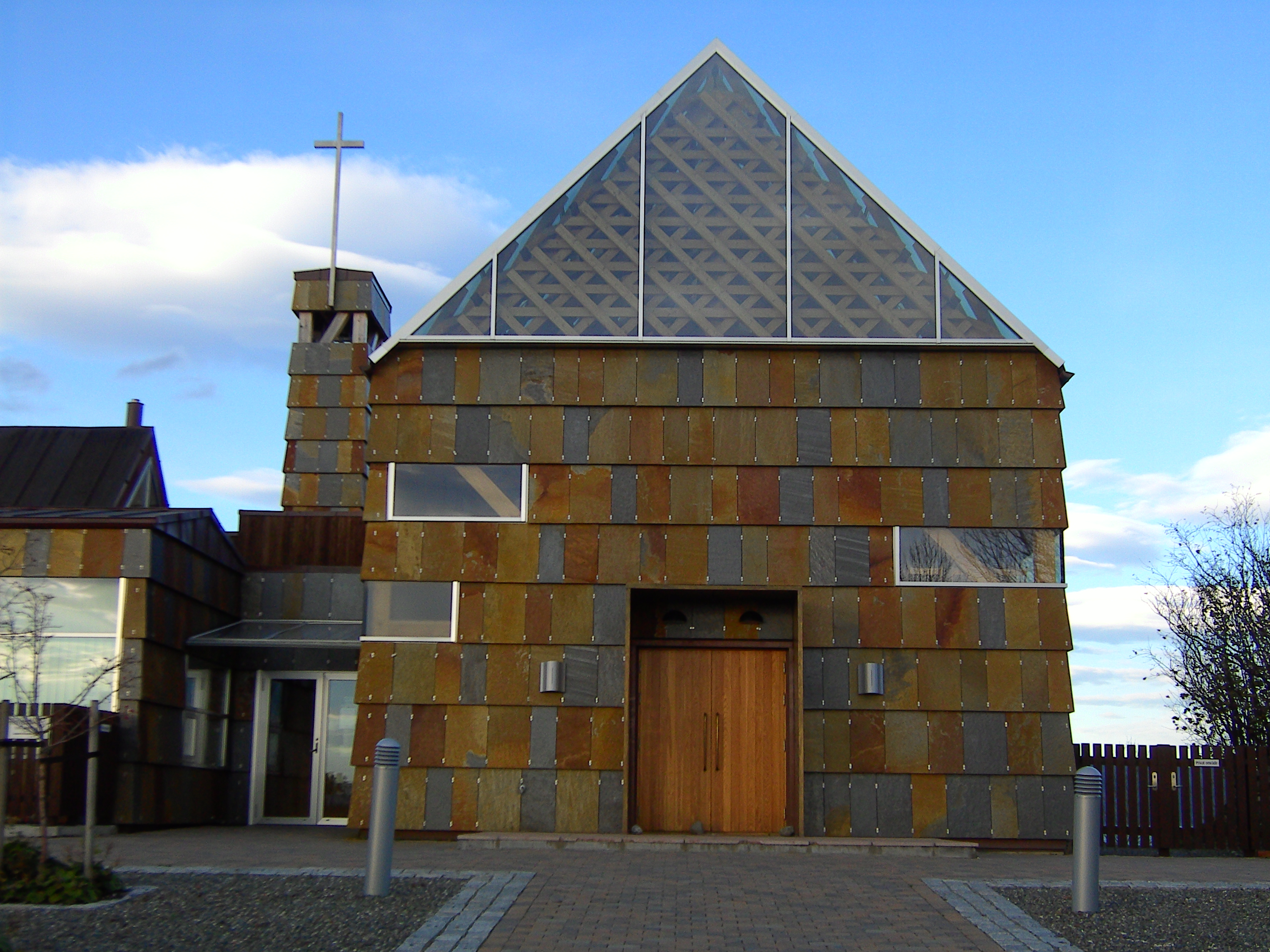 Church of the new monastery on Tautra Island